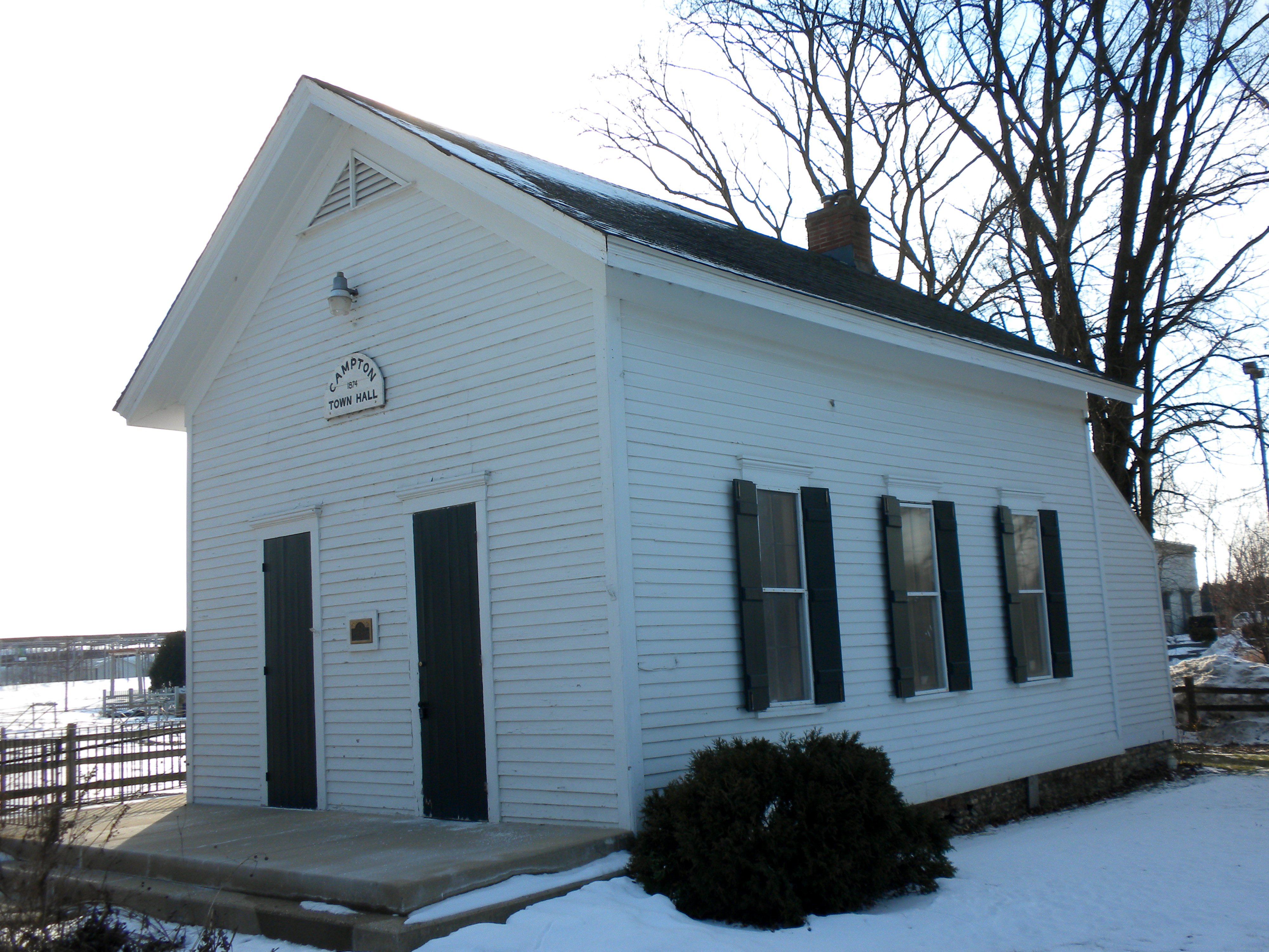 Campton Town Hall on NRHP since November 24, 1980. Located west of Wasco at Town Hall Rd. and IL 64, its nearest big town is Geneva, IL to the east in McHenry County.